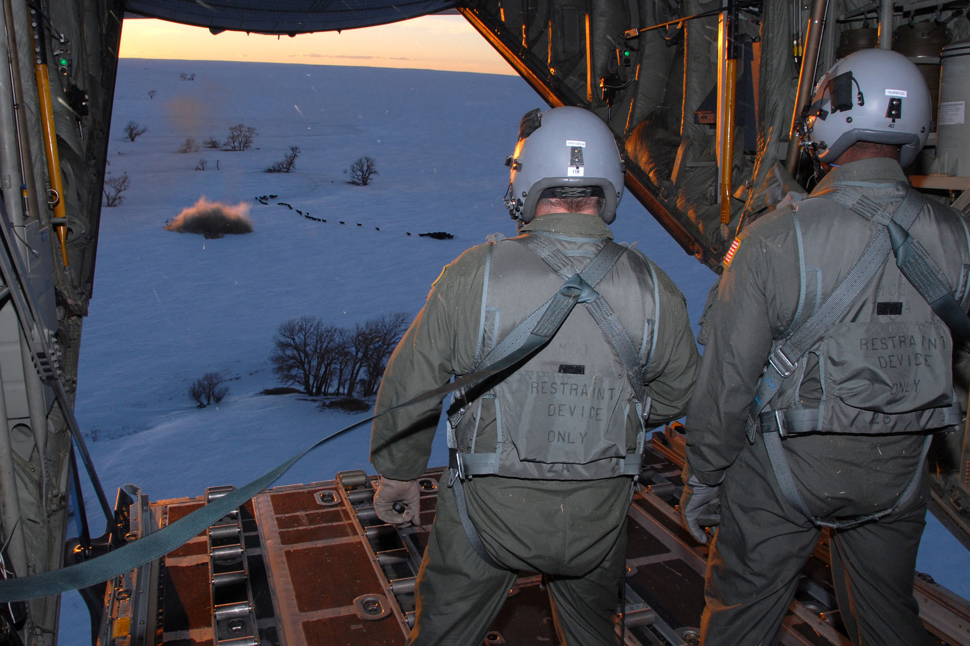 Wyoming Air National Guard loadmasters aboard a C-130 Hercules aircraft watch as a 1-ton hay bale lands near a herd of cows during an emergency feeding mission in southeast Colorado Jan. 3. The hay was dropped near La Junta, Colo., to help feed livestock that have been stranded from a snowstorm that has impacted the area.